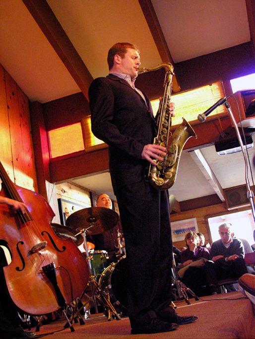 Eric Alexander at Bach Dancing & Dynamite Society, Half Moon Bay CA 4/6/08. Photo by Brian McMillen.